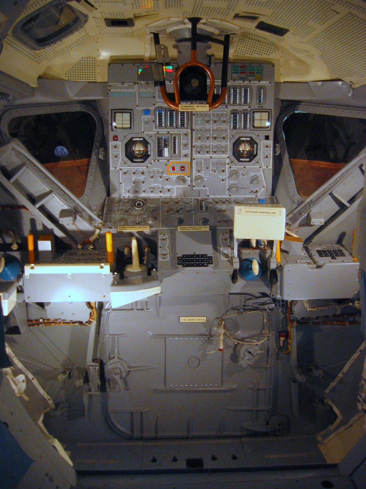 An inside view of the Apollo Lunar Module (LM) crew cabin. Taken at the Kennedy Space Center, 2007.